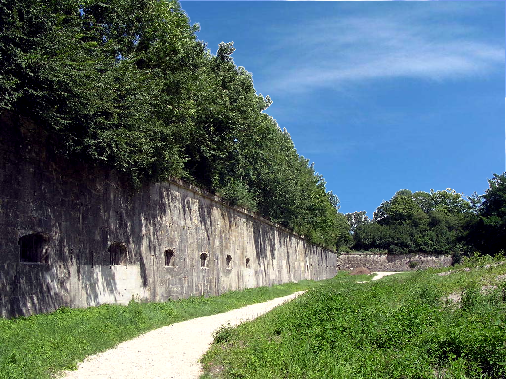 Fronton sud, Auxonne, Burgundy, FRANCE